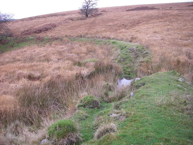 Brecon Forest Tramroad The remains of this 19th century tramroad can be traced over most of its former route between Coelbren and Crai.